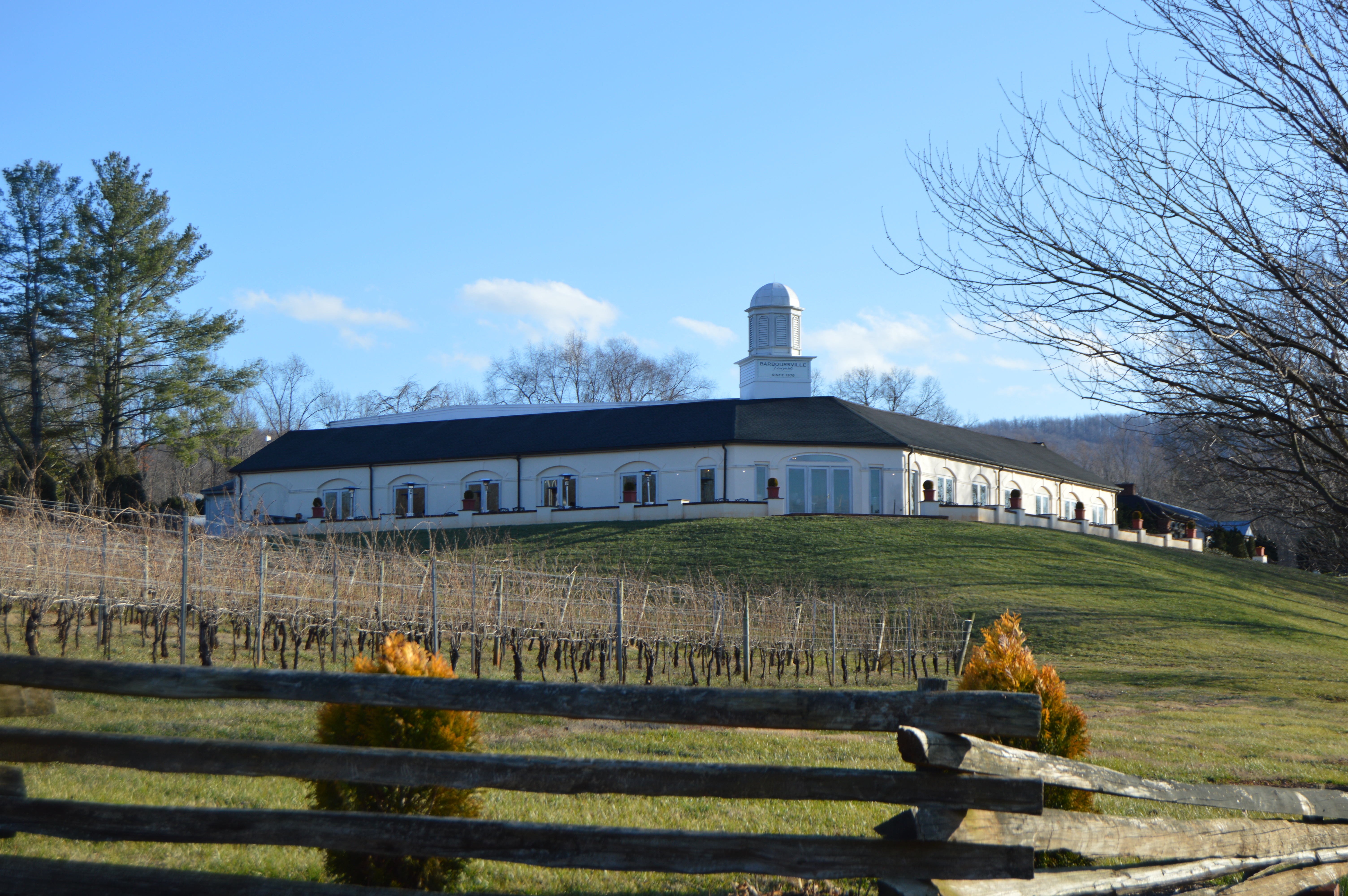 Northern view of the main building at Barboursville Vineyards, located off Vineyard Road at Barboursville in Orange County, Virginia, United States.